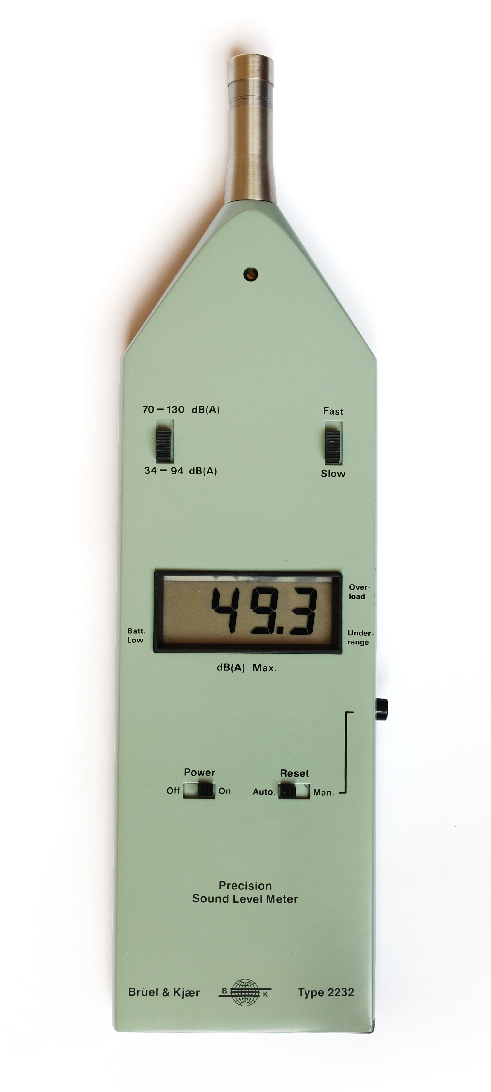 Precision Sound Level Meter Bruel&Kjaer Type 2232, equipped with a half-inch prepolarized condenser microphone. Type 1 precision. Satisfies the requirements of IEC 60651 Type 1 and ANSI S1.4 1983 Type S1A. Measuring range 34 dB to 130 dB.